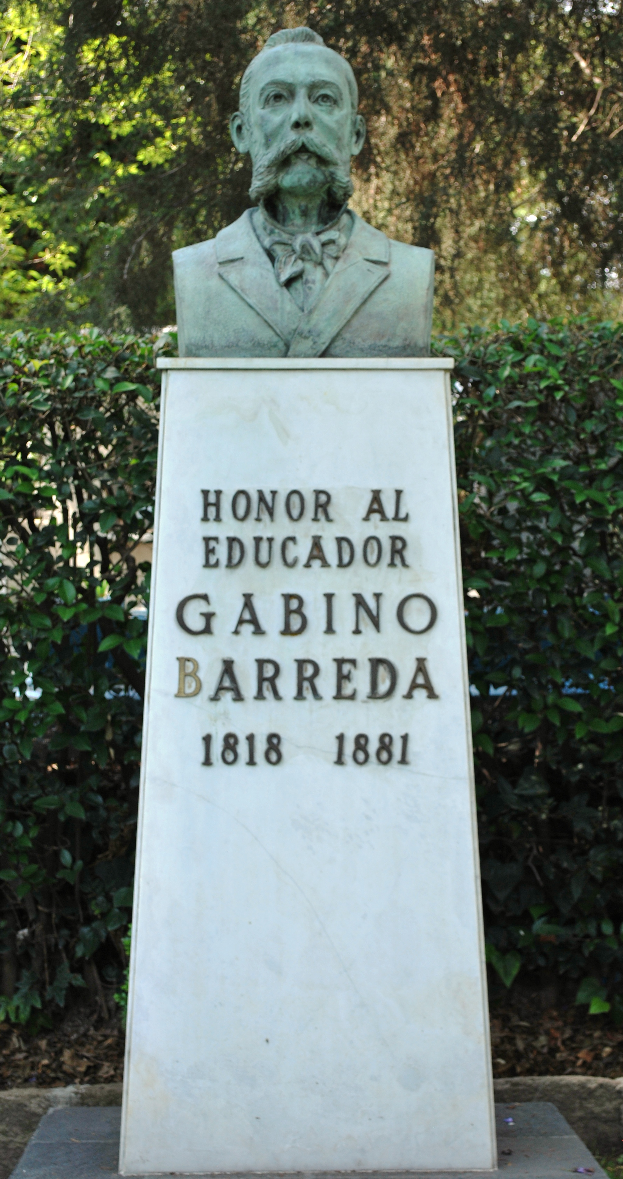 tomb of Gabino Barreda in the Panteon Civil de Dolores cemetery in Mexico City